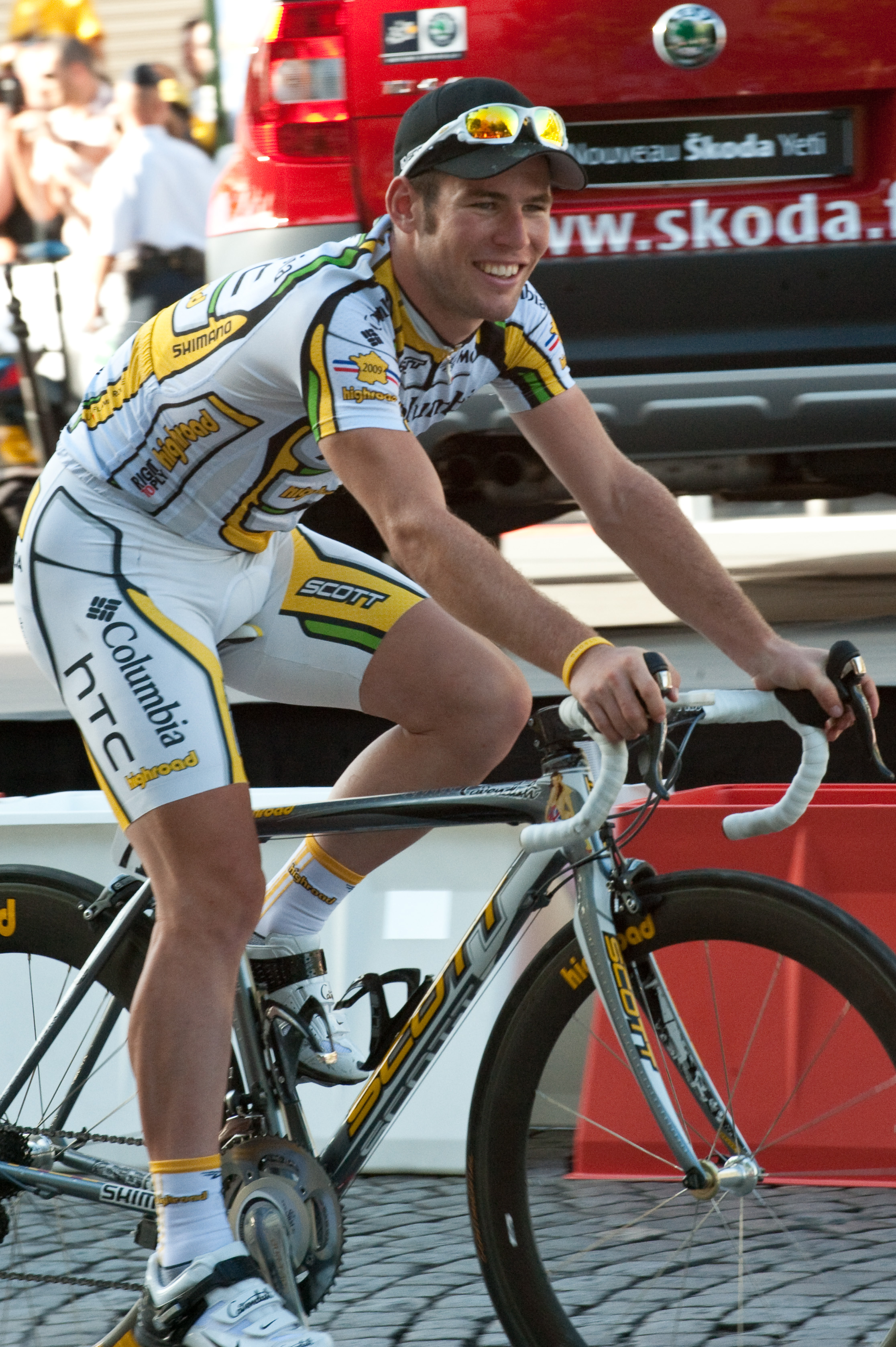 Mark Cavendish - Tour de France 2009